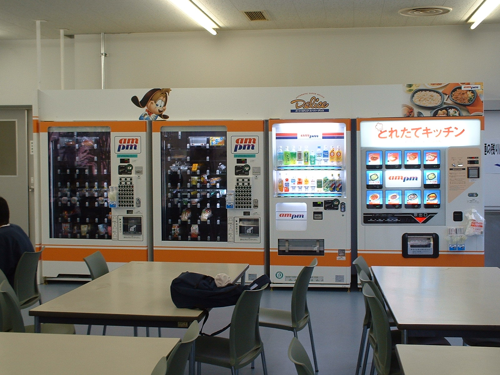 "Automatic Super Delice" vending machine at am/pm in Japan.